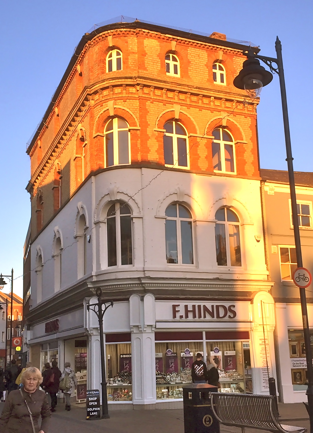 No 1, Market Place, Boston.